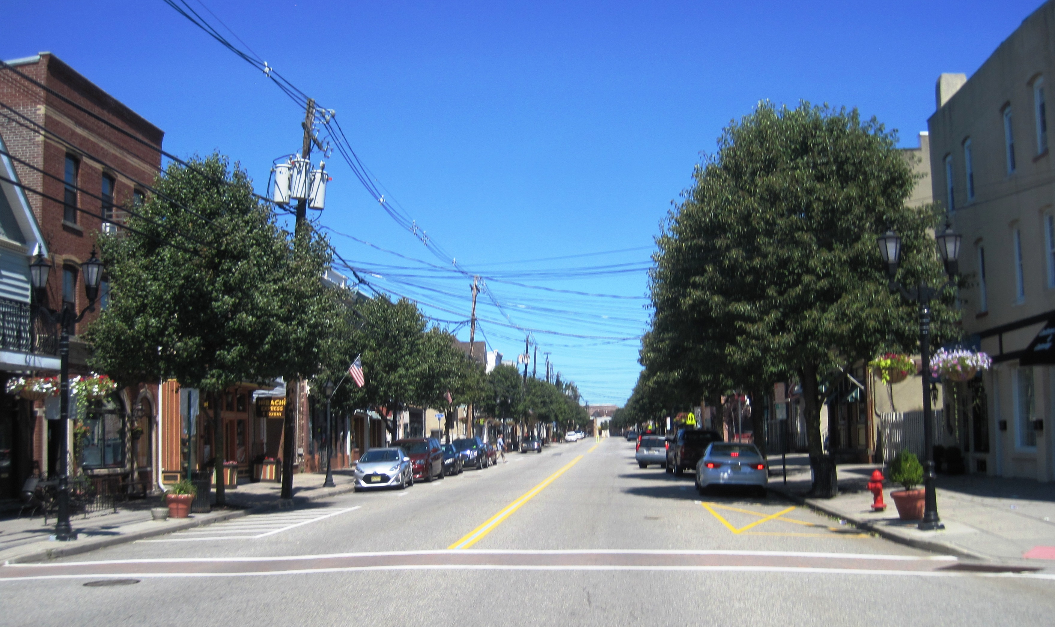 Photo showing downtown South Amboy, New Jersey. Photo taken along northbound Broadway at Henry Street.